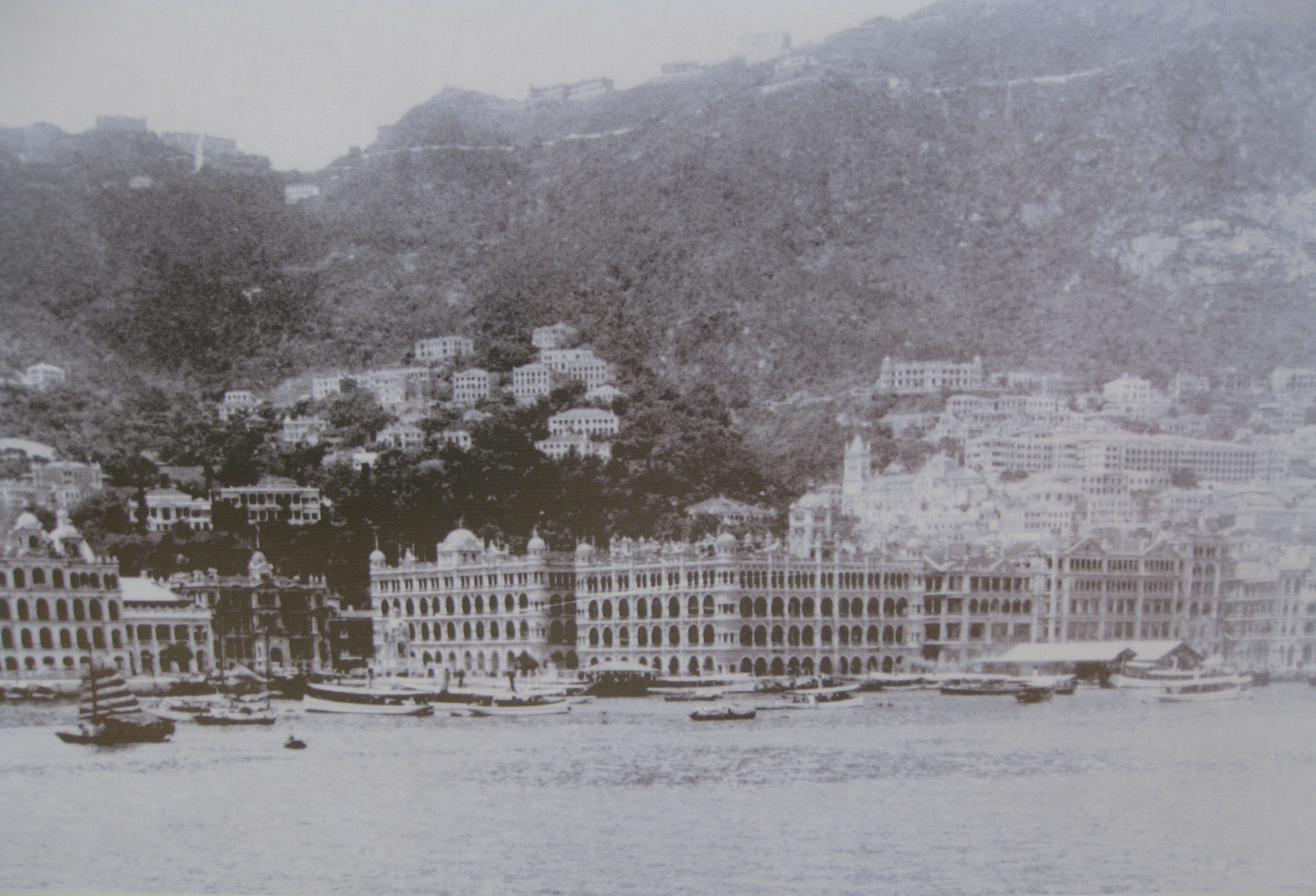 Central in Hong Kong, circa 1910, View from Victoria Harbour